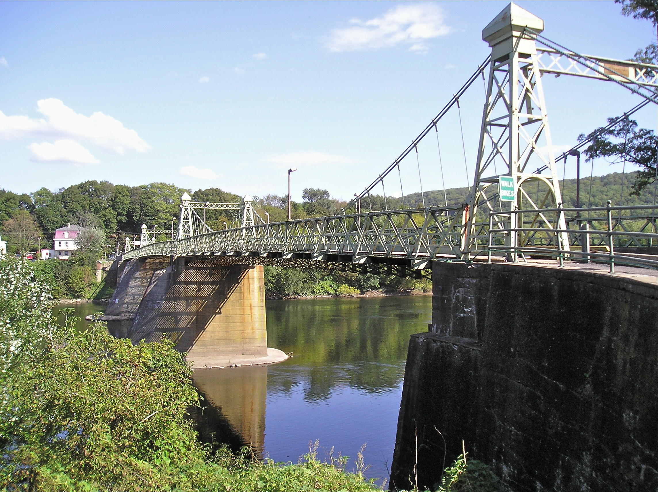 Riegelsville Suspension Bridge""" — over the Delaware, seen from Pennsylvania side.